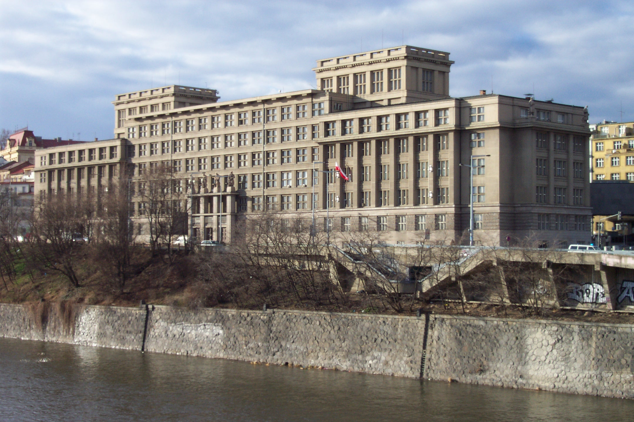 Building of Prague part Praha 7